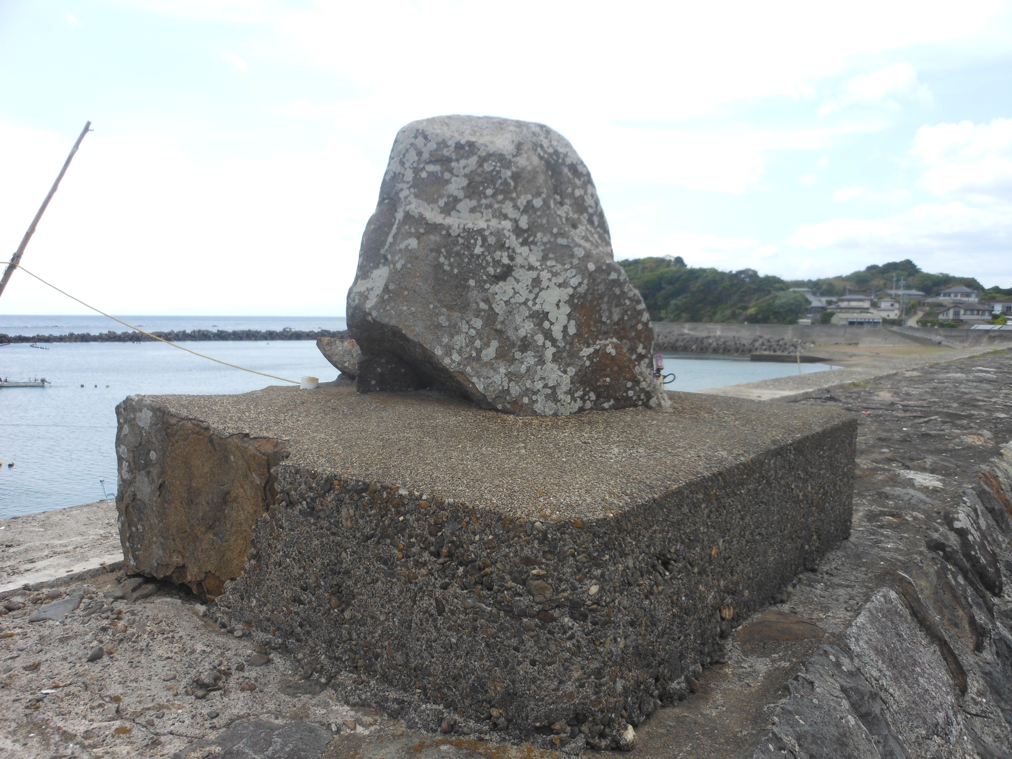 This is a Koboshi stone on a dyke in Shimacho-Koshika, Shima, Mie, Japan.